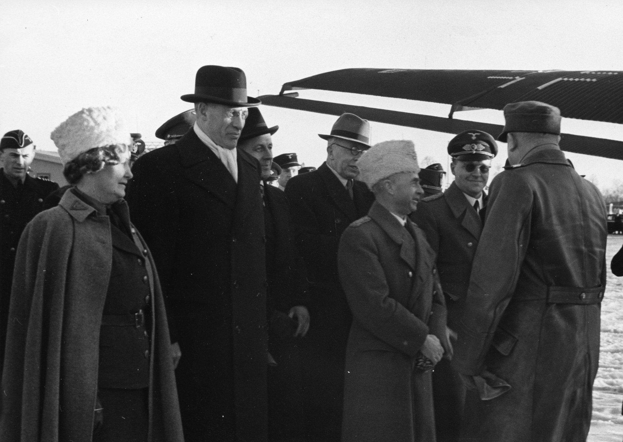 Flickr-album of 55 photos, description by Riksarkivet (National Archives of Norway): Vidkun Quisling, head of the collaborationist government in Norway from 1942 to 1945 during the German occupation in World War II, made ​​several trips to Germany in the period 1939-1945, and he had a total of 11 meetings with Adolf Hitler. Four of the meetings were state visits, and one of them took place in Berlin on 12-15. February 1942. In addition to the newly appointed Minister President, the group consisted of ministers Hagelin, Fuglesang and Stang and also Thorvald Thronsen, chief of staff in the Hird - the party's paramilitary organisation modelled on the Nazi German Sturmabteilungen.